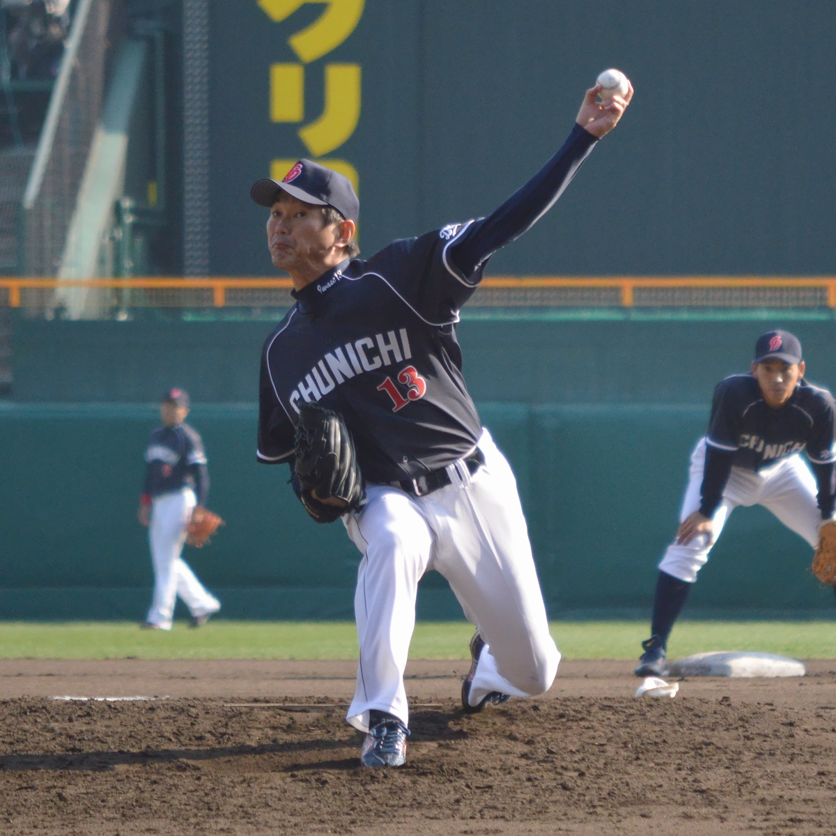 Hitoki Iwase, pitcher of the Chunichi Dragons, at Hanshin Koshien Stadium.